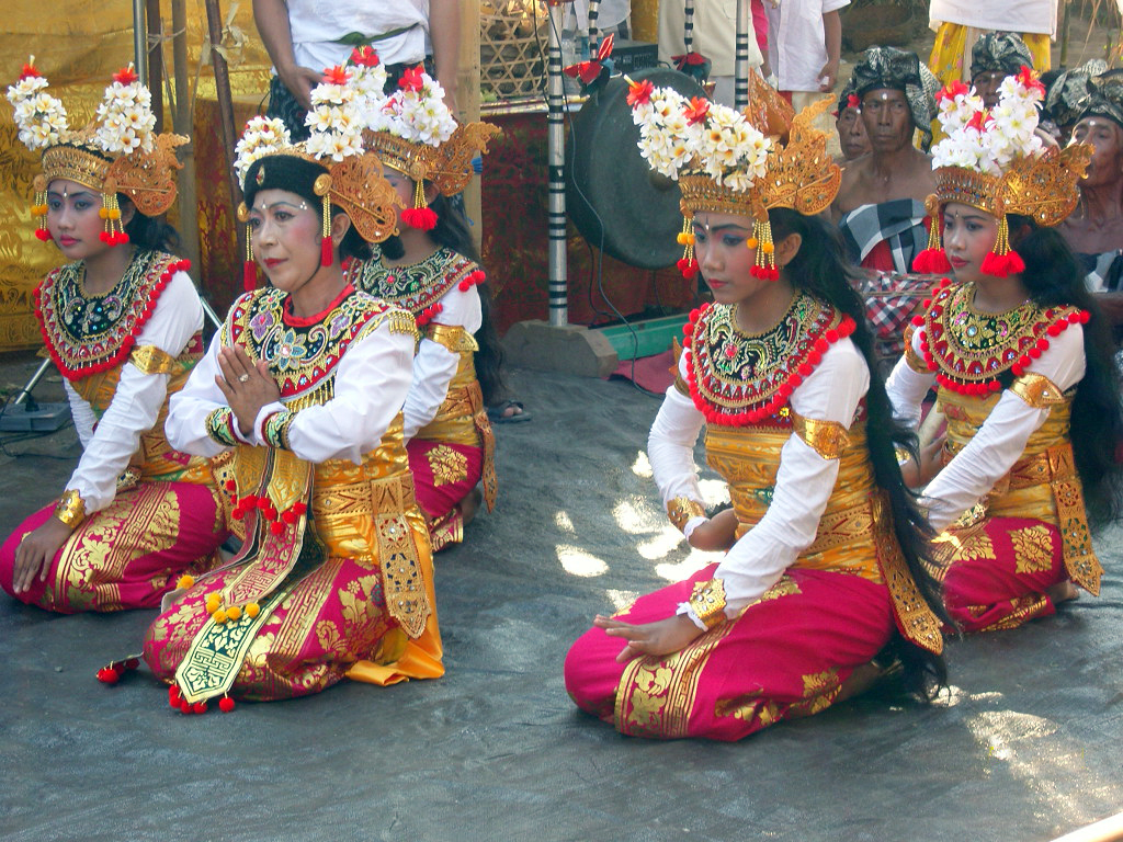 Gamelan Gambuh dancers, Budakeling, Bali.